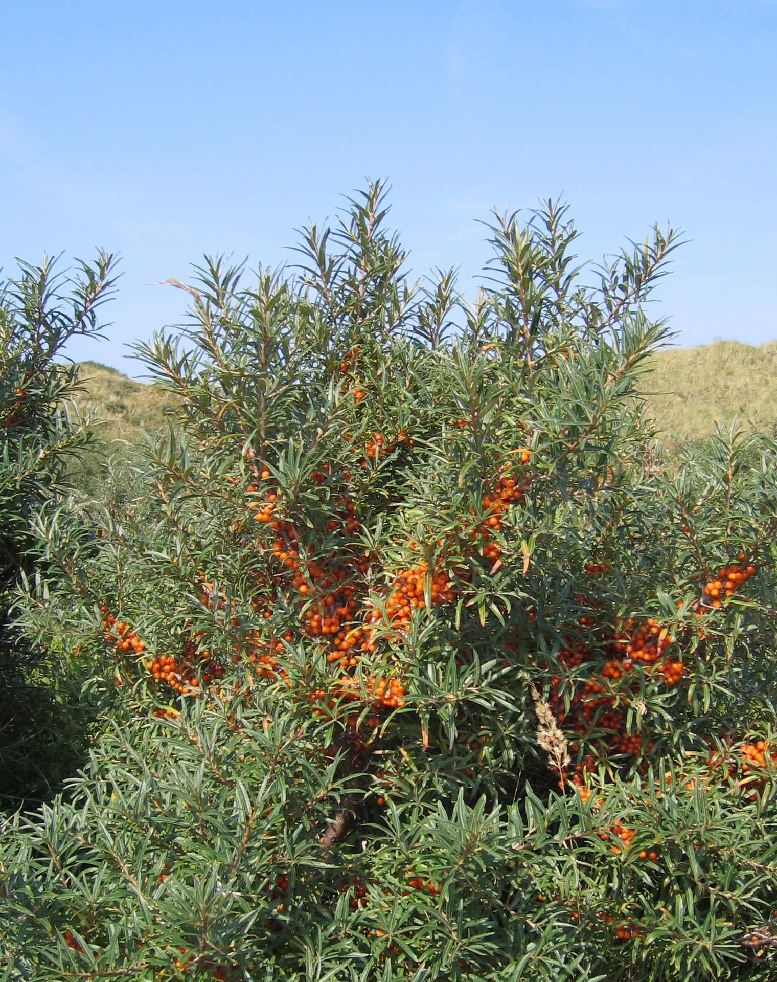 Hippophae rhamnoides Photo by Svdmolen 4 september 2005, IJmuiden, the Netherlands